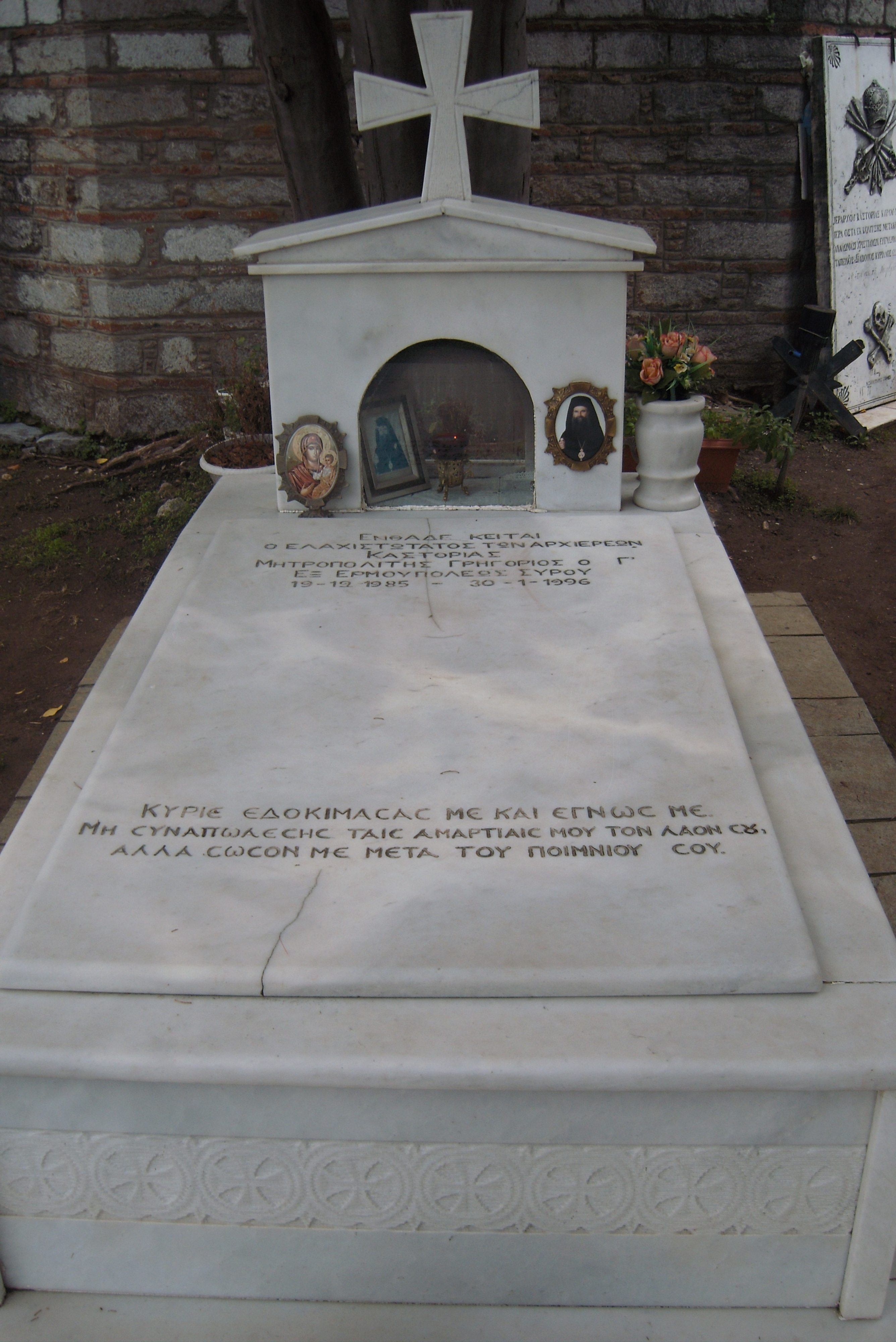 Grigorios III of Kastoria Grave in Kastoria Mitropoly yard